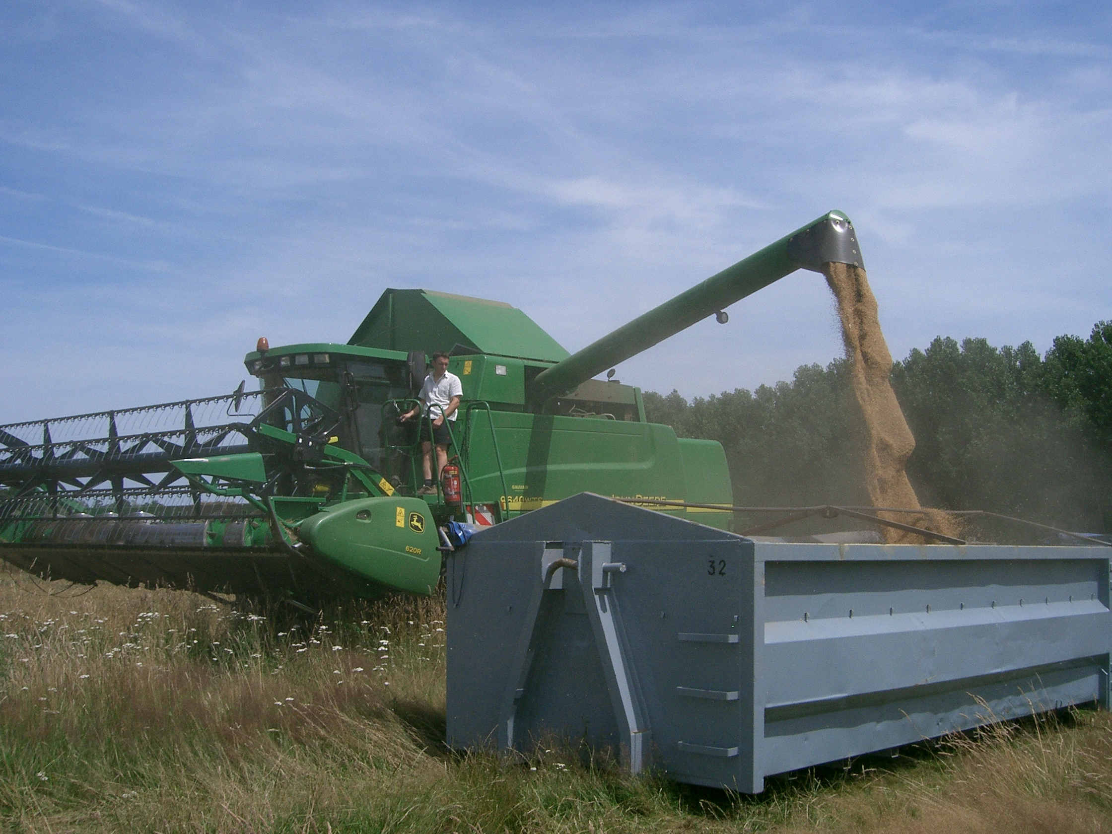 Harvest with Combine harvester John Deere 9640WTS